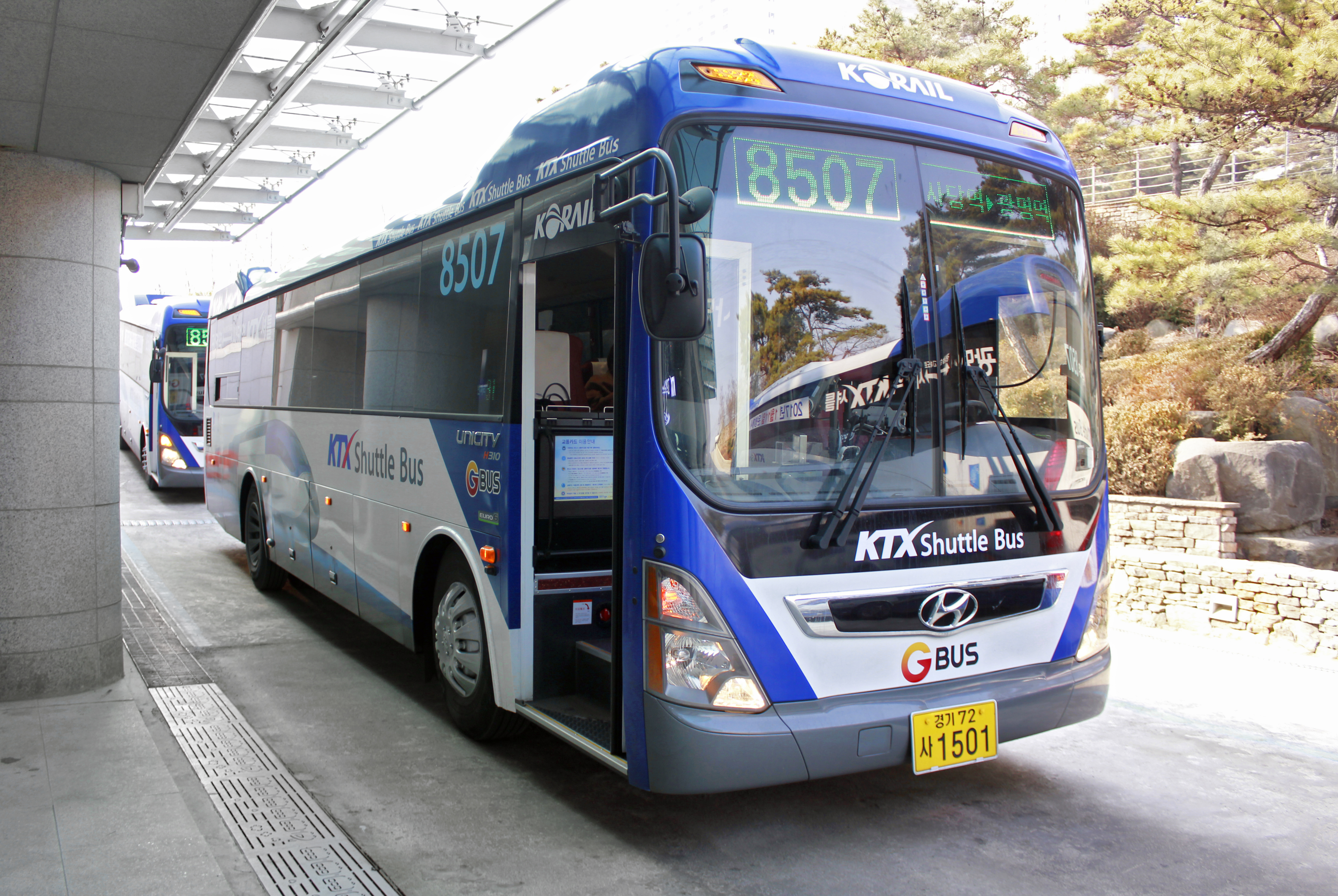 8507 KTX shuttle bus